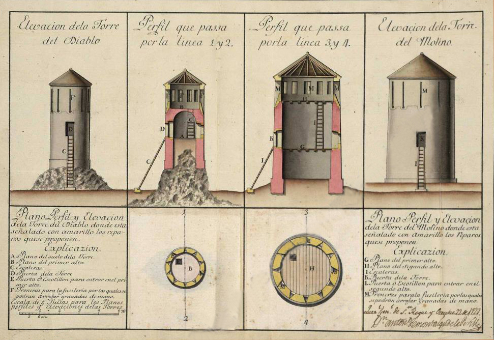 Plan of la Torre del Diablo and laTorre del Molino 1727 Antonio Montaigu de la Perille